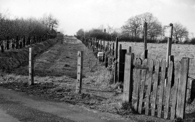 Site of Blean & Tyler Hill Halt. View NNW, towards Whitstable Harbour; ex-SE&C Canterbury West - Whitstable Harbour branch. Passenger service ceased and Halt closed 1/1/31, line closed completely 1/3/53.